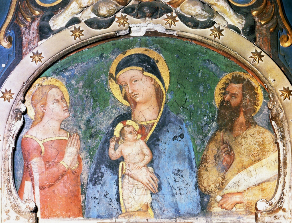 Madonna and Child with Saints, c. 1350 Oratorio di Santa Maria delle Grazie, Mendrisio, Switzerland